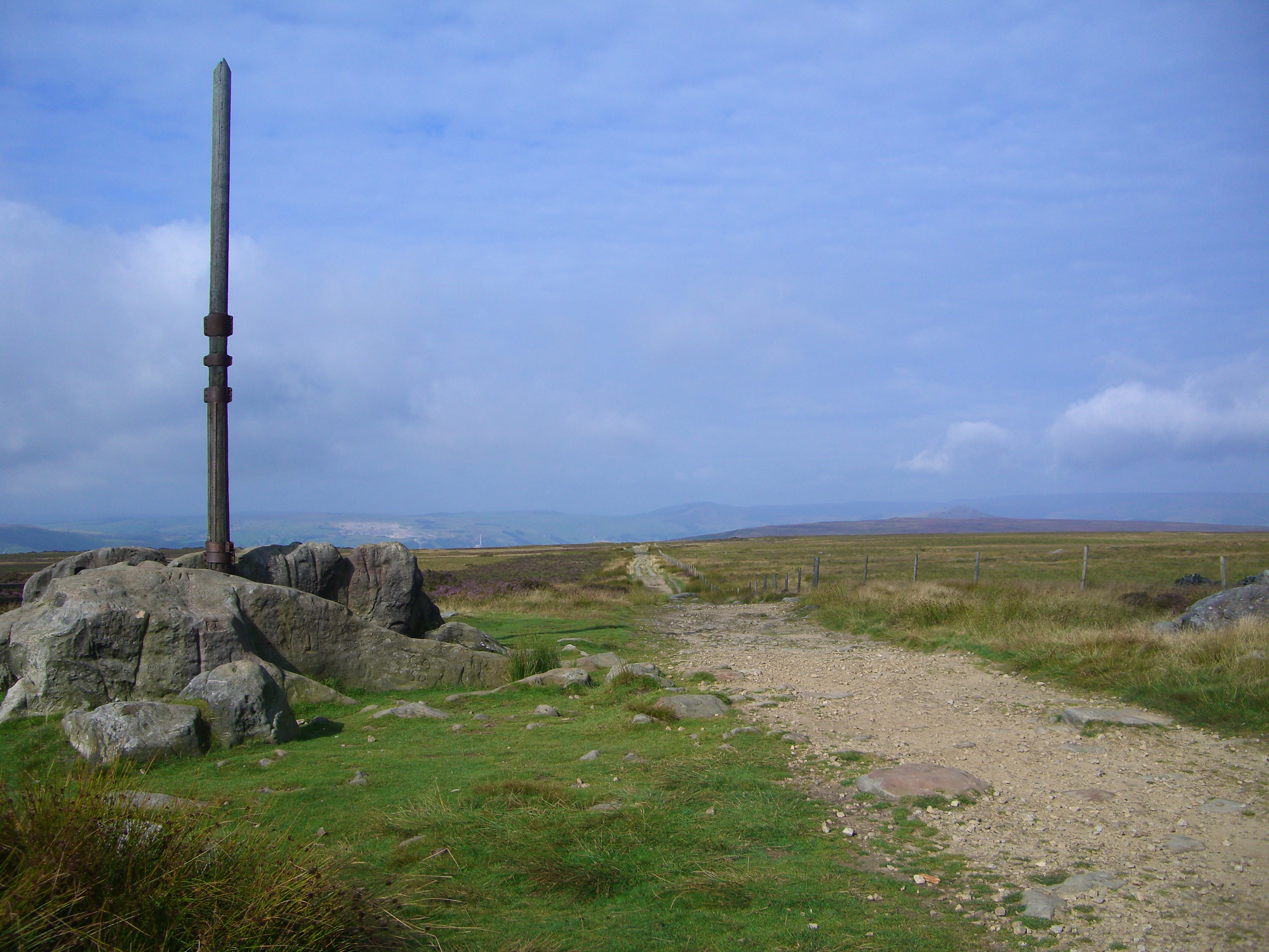 Stanedge Pole on the South Yorkshire / Derbyshire border with the medieval track Long Causeway on the right hand side.